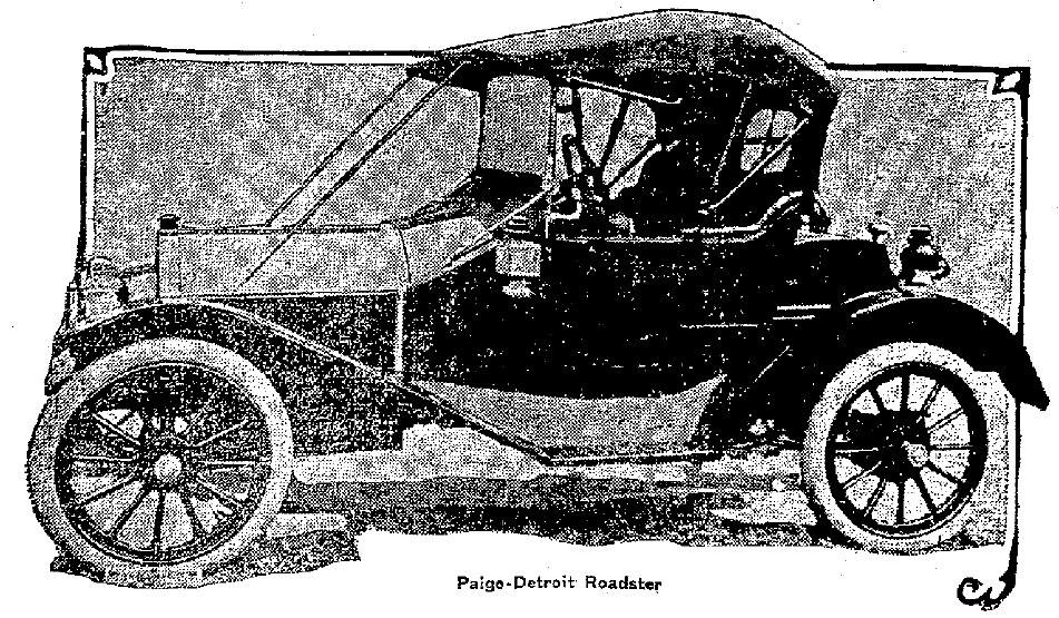 A 1911 Paige-Detroit Roadster Advertisement; this is a 4-cylinder, 25 HP Model B